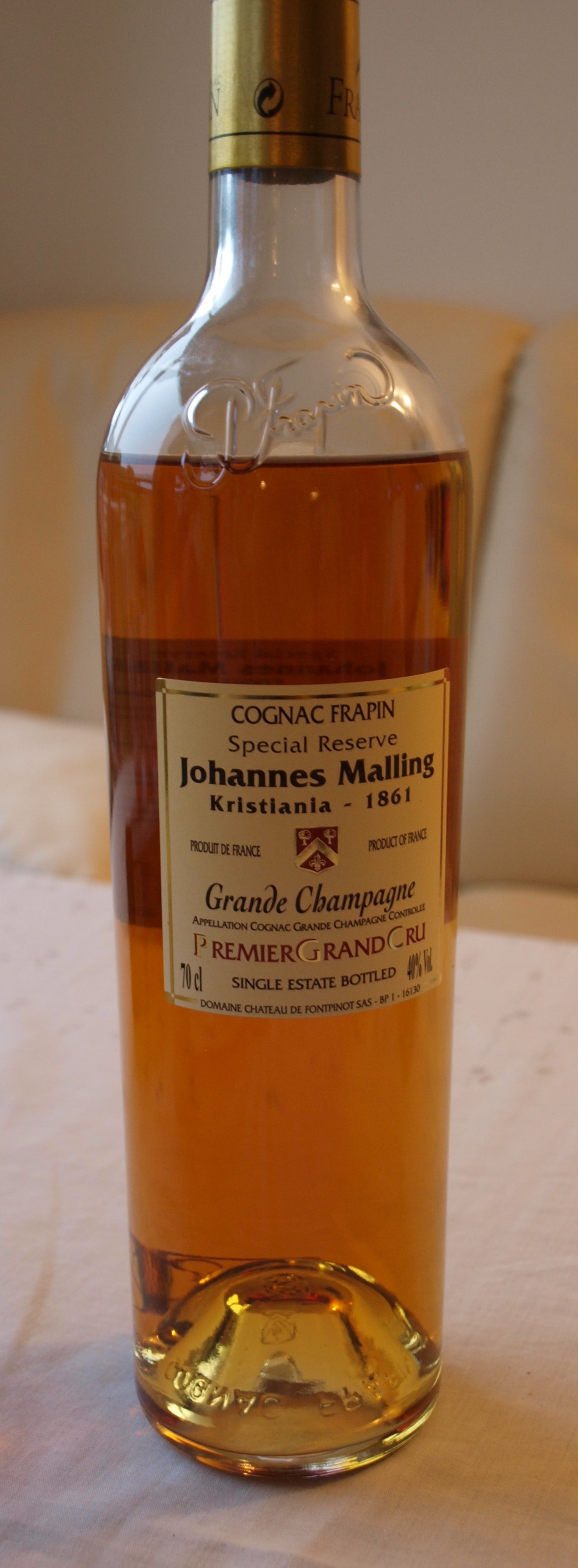 Bottle of cognac: Frapin - Johannes Malling (XO, Grande Champagne)